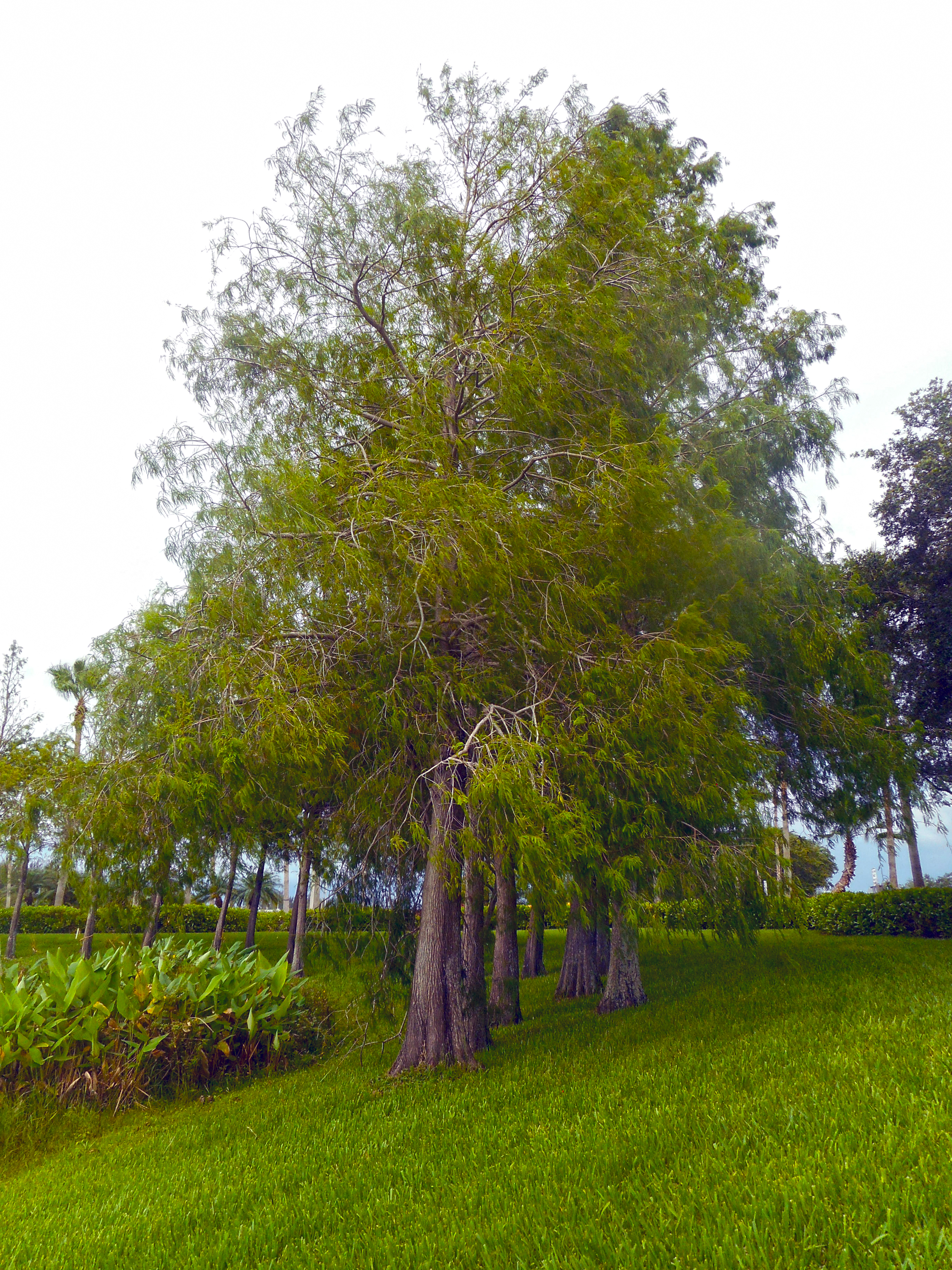 Bald cypress tree group